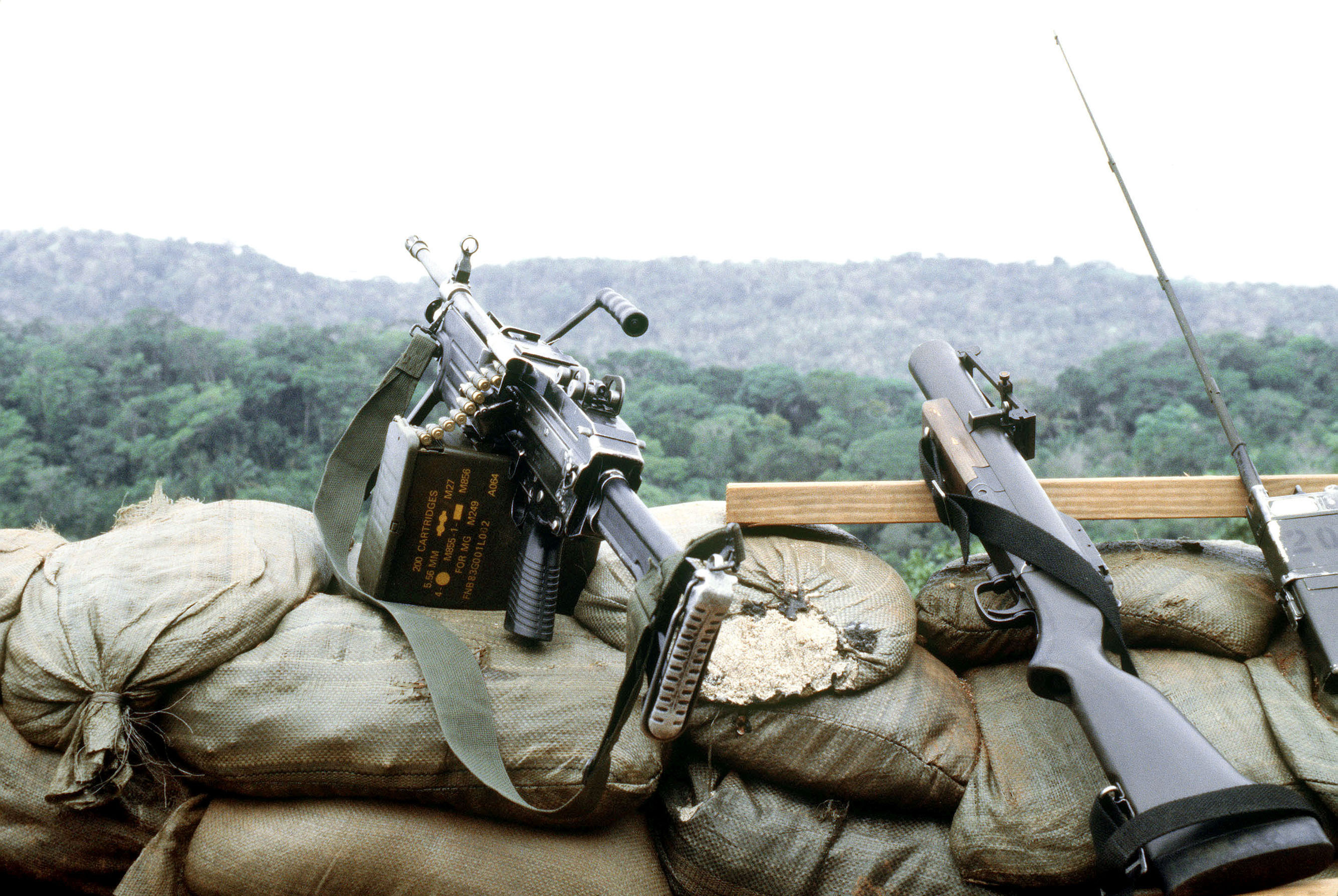 A Marine stands watch in a bunker at a petroleum-oil-lubricants (POL) storage facility near Howard Air Force Base in Panama. Set on the sandbags are an M249 squad automatic weapon (SAW) and an M79 grenade launcher.